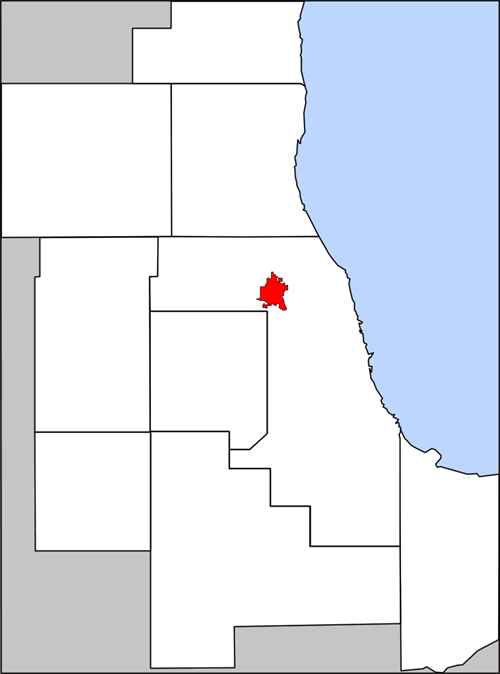 Location of Des Plaines in Chicagoland. Created with Macromedia Fireworks 4 PNG-8 Websnap adaptive color palette 256 colors